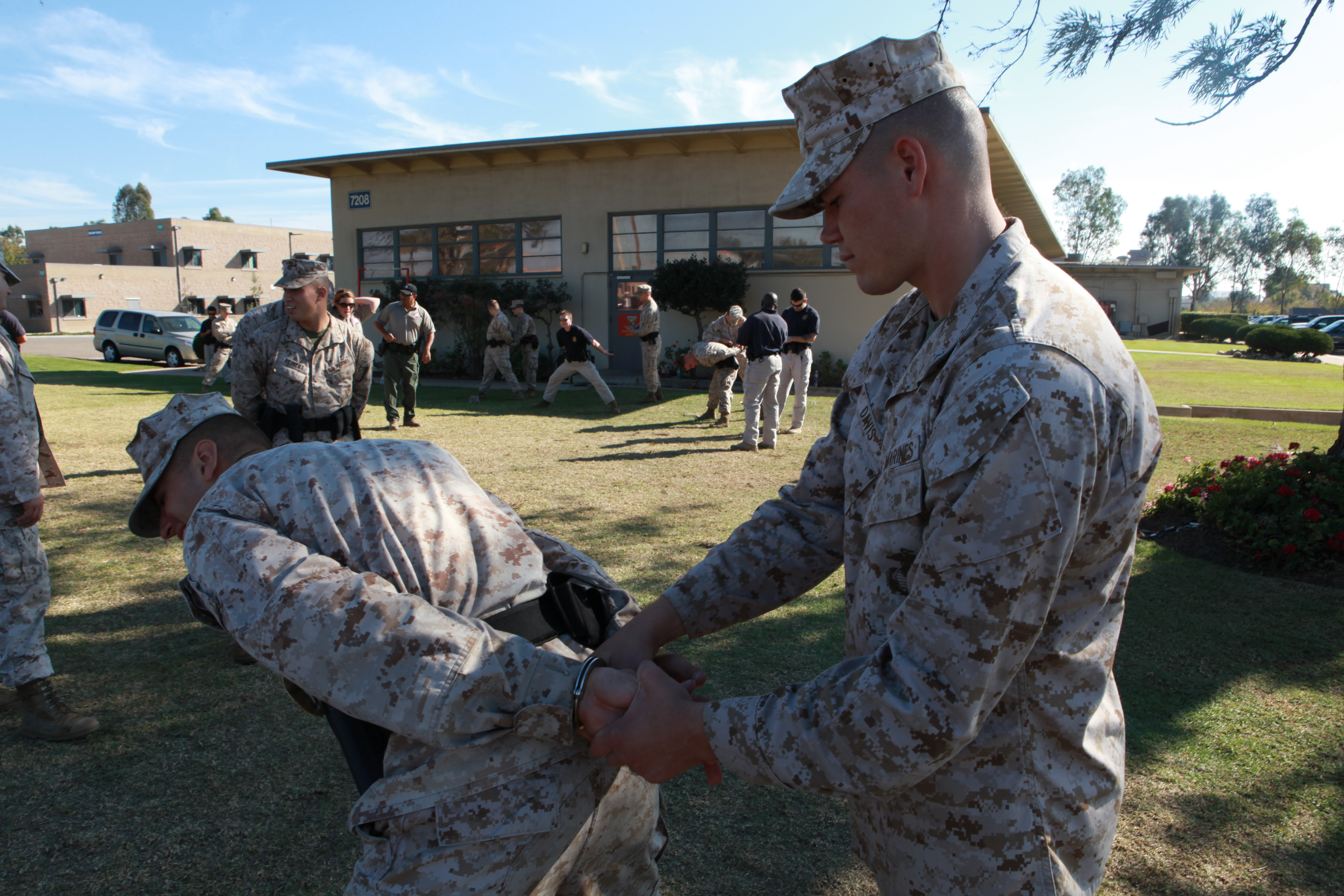 MARINE CORPS AIR STATION MIRAMAR, Calif. – Cpl. Michael Davis, right, a military working dog handler and a Klamath Falls, Ore., native, and Lance Cpl. Kyle Martin, left, a military police officer and a St. Louis native, both with Headquarters and Headquarters Squadron, practice handcuffing a compliant detainee during defensive tactics and handcuff training aboard Marine Corps Air Station Miramar, Calif., Nov. 1. The Marines rehearsed properly handcuffing and removing handcuffs from compliant and non-compliant detainees.